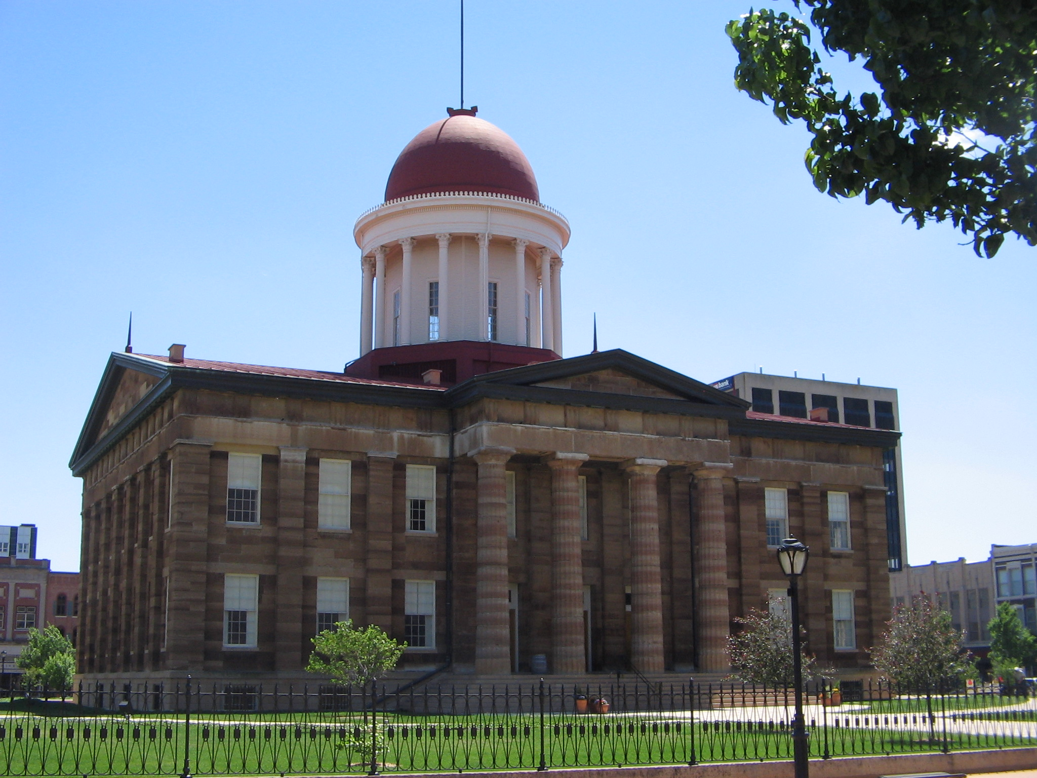 Photo Taken by Author (2005)